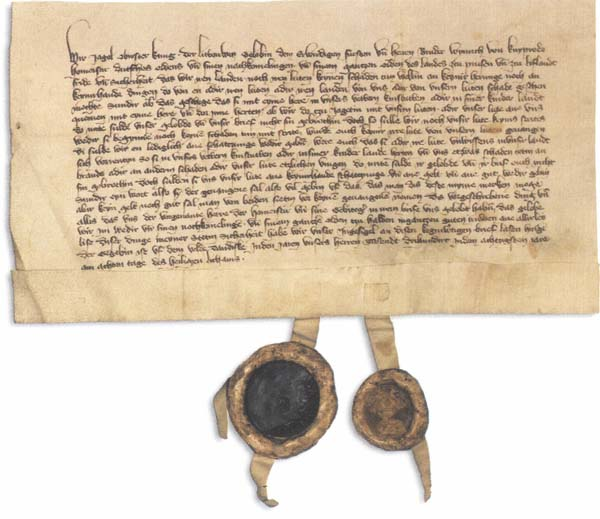 Treaty of Dovydiškės between Jogaila and Teutonic Order